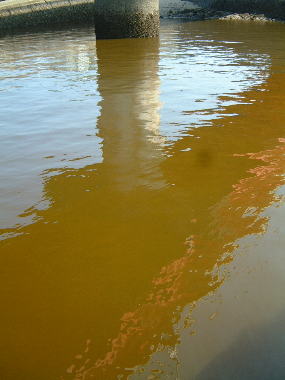 Algae(Algal) bloom in Isahaya Bay.